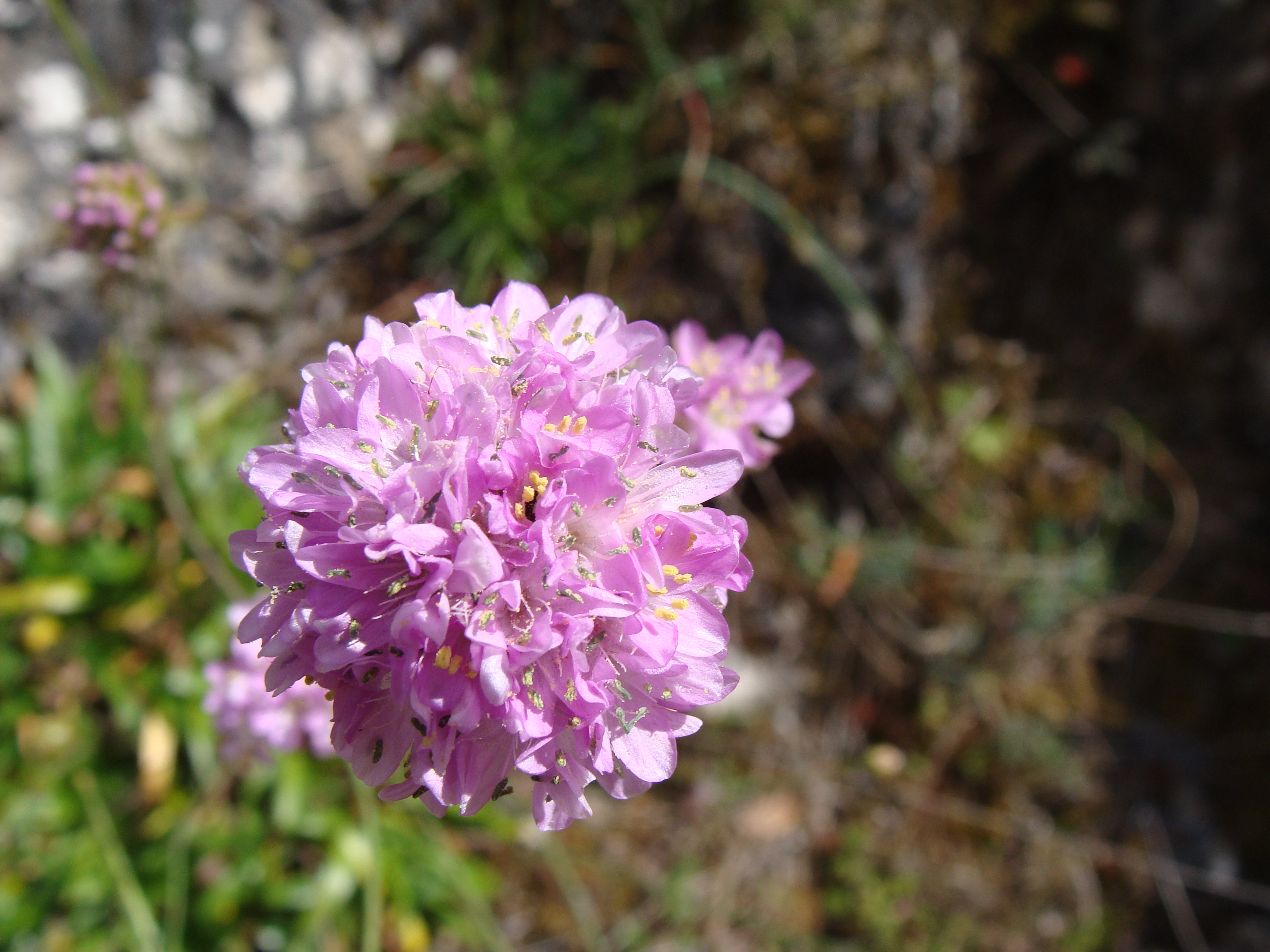 Armeria rothmaleri in the Natural Park of Serra de Enciña de Lastra, Orense, Galicia, Spain.